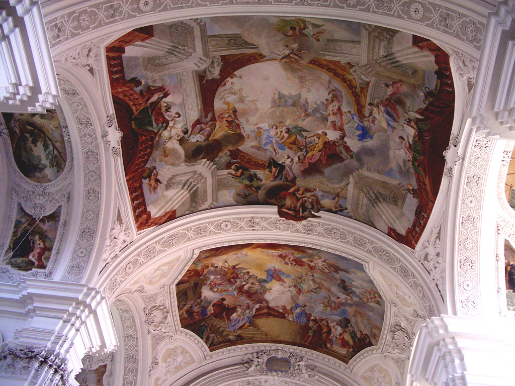 Weingarten, Germany: Basilika St. Martin, Ceiling paintings. Frecoes by Cosmas Damian Asam, 1718-1720. Above: Triumph of Benedict of Nursia. Below: Assumption of Mary